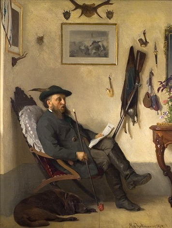 Des Jägers Ruhestunde